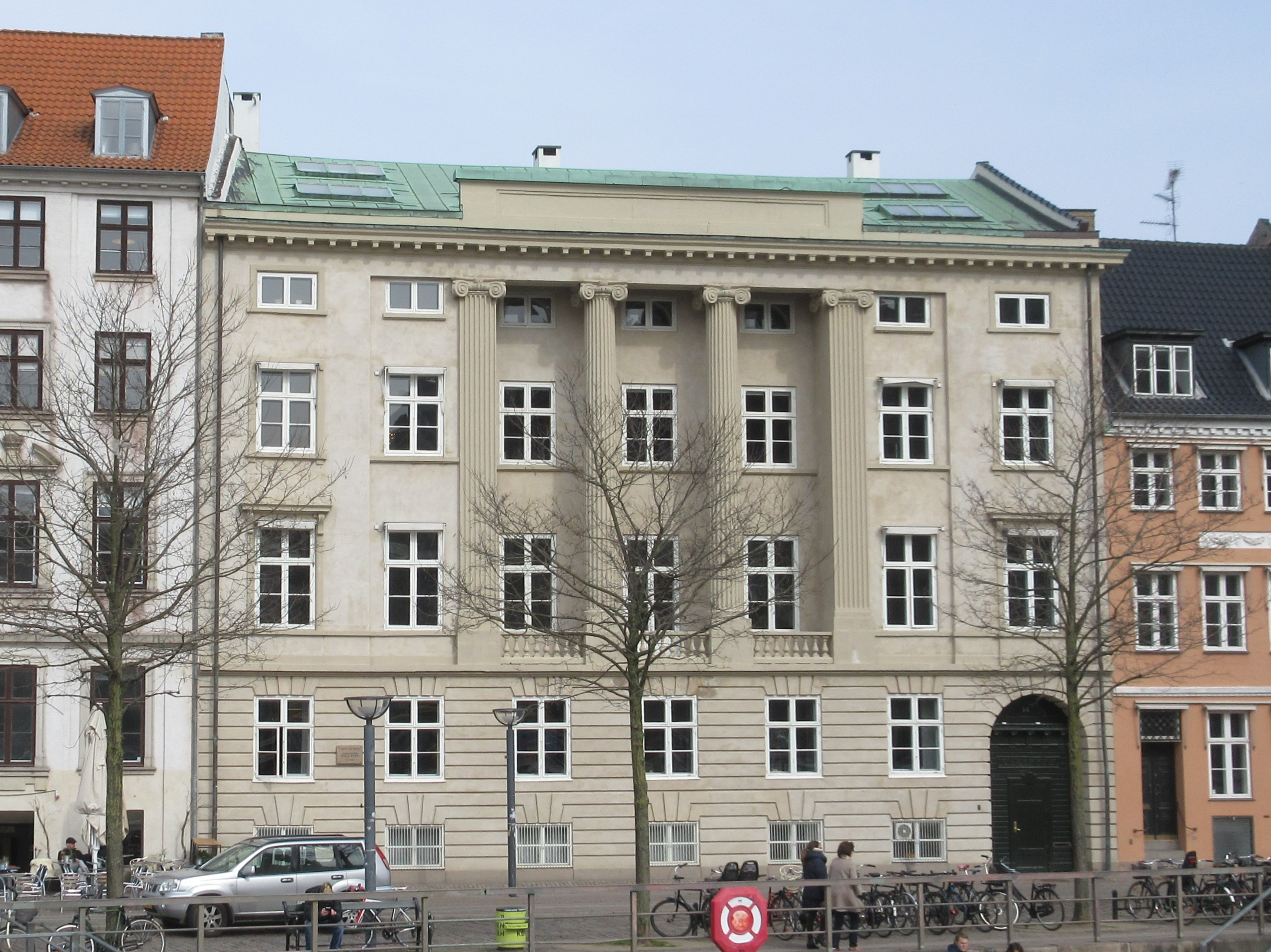 Gustmeyers Gård in Copenhagen, Denmark